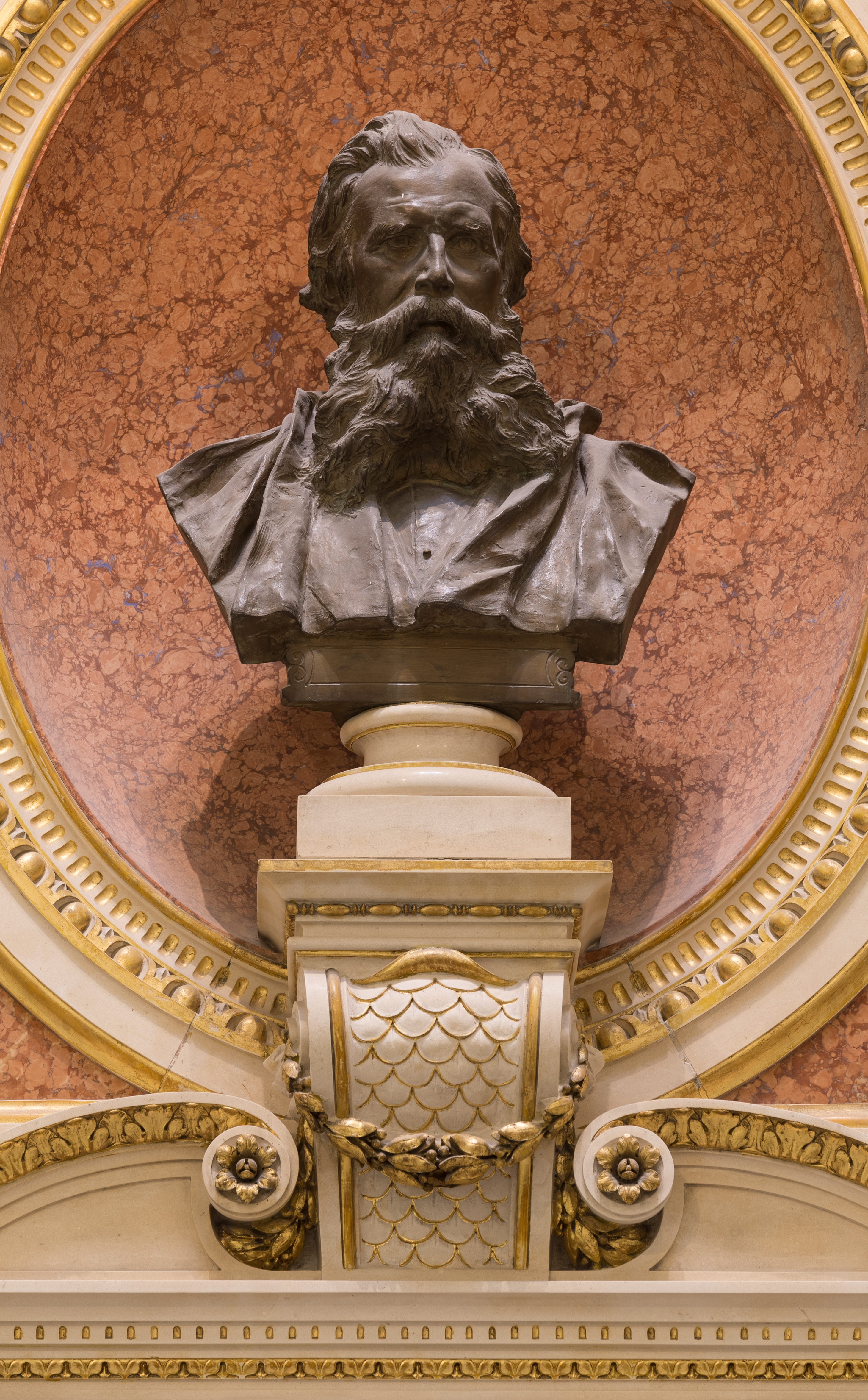 Vestibül in front of the big ballroom in the main building of the University of Vienna, bust of the architect, Heinrich von Ferstl